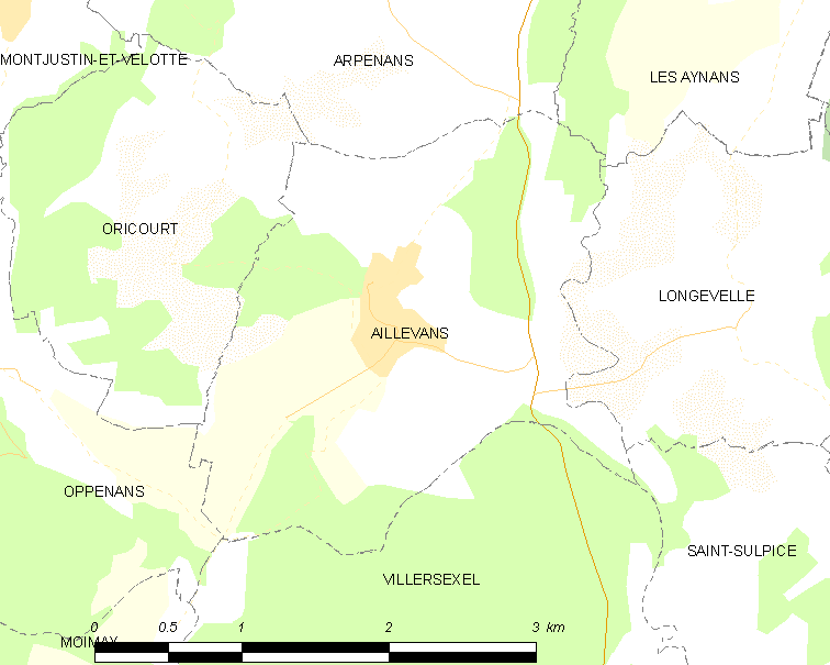 Map of French municipality